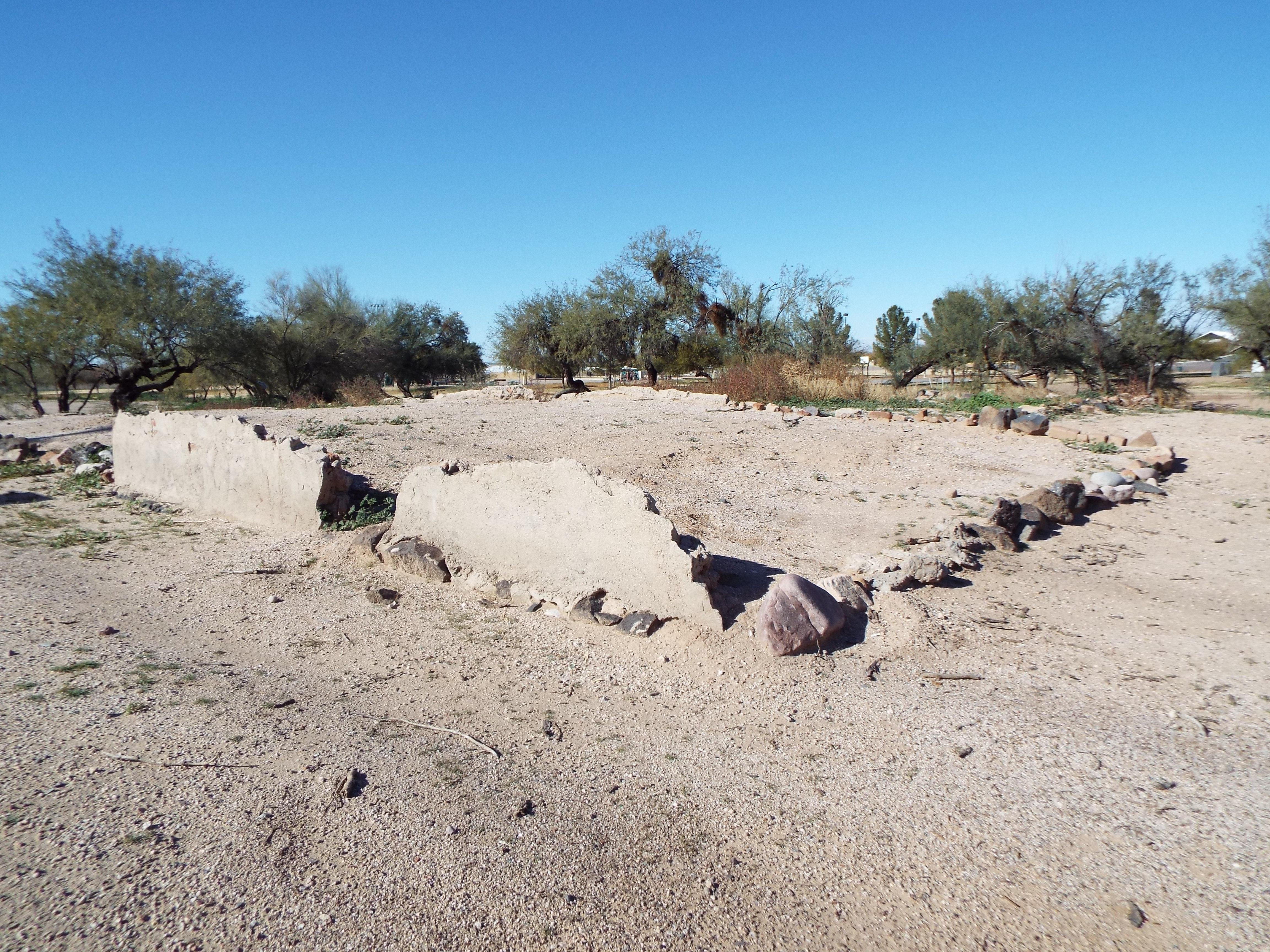 The Ruins of Levi Ruggles House, the founder of Florence, Az. It was built in 1866. The ruins are located in Ruggles St.